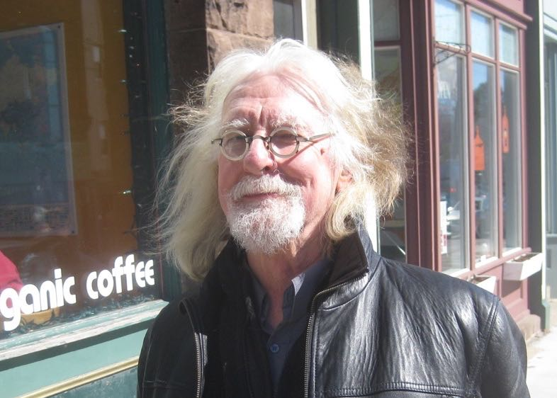 Photo of New Brunswick artist and photographer Thaddeus Holownia taken in Sackville, N.B.